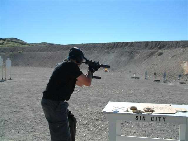 Vector Arms Mini Uzi SMG with Gemtech MK9k suppressor at 2005 submachine gun match